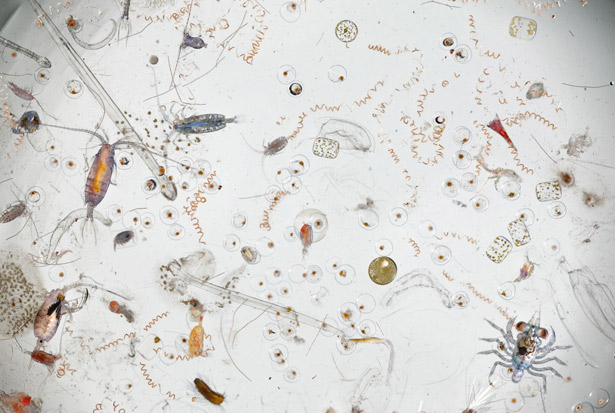 Marine critters Under a magnifier, a splash of seawater teems with life. The planktonic soup includes bug-like copepods; long, glassy arrowworms; coiled filaments of cyanobacteria; rectangular algae called diatoms; fish eggs; and a big-eyed larval crab the size of a rice grain.